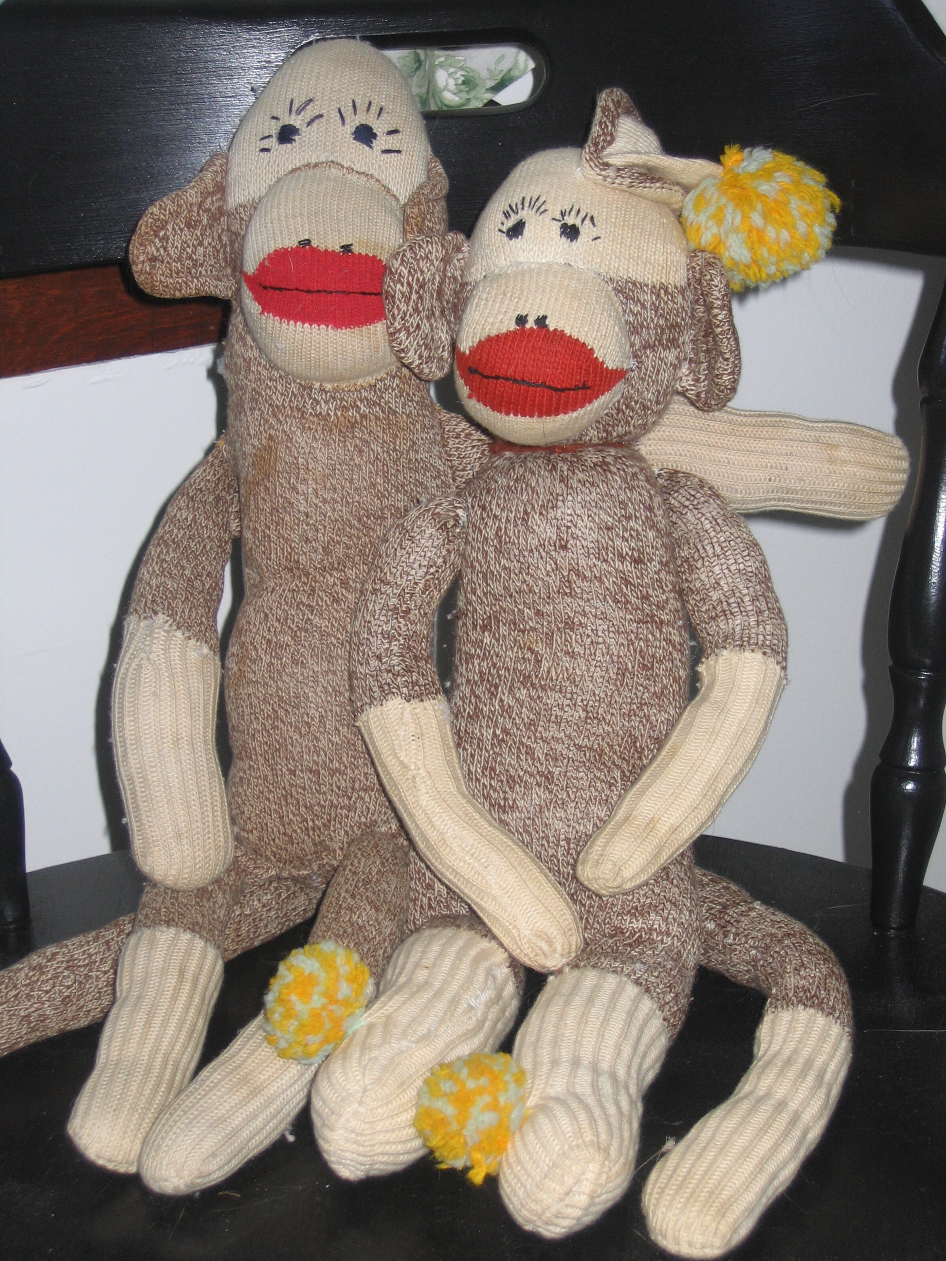 These sock monkeys were made by Josephine McGill of Palmyra, NJ in the 1960s. They are still loved and given a good home today by her grand-daughter. These sock monkeys were made by Josephine McGill of Palmyra, NJ in the 1960s. They are still loved and given a good home today by her grand-daughter.